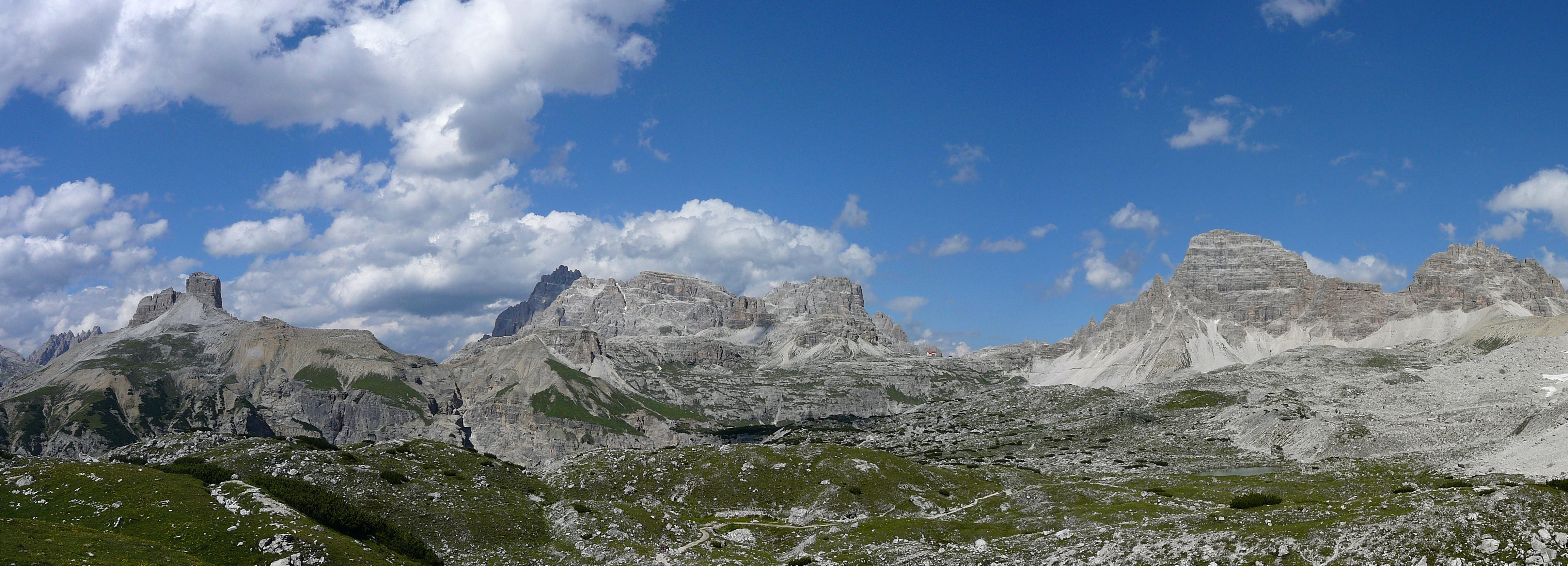 Panorama of Sexten Dolomites